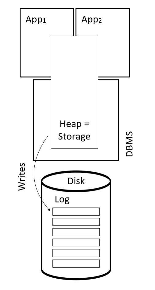 Drawing that displays the Starcounter architecture where the heap spans over the DBMS and applications. It also illustrates how data is written to a transaction log.